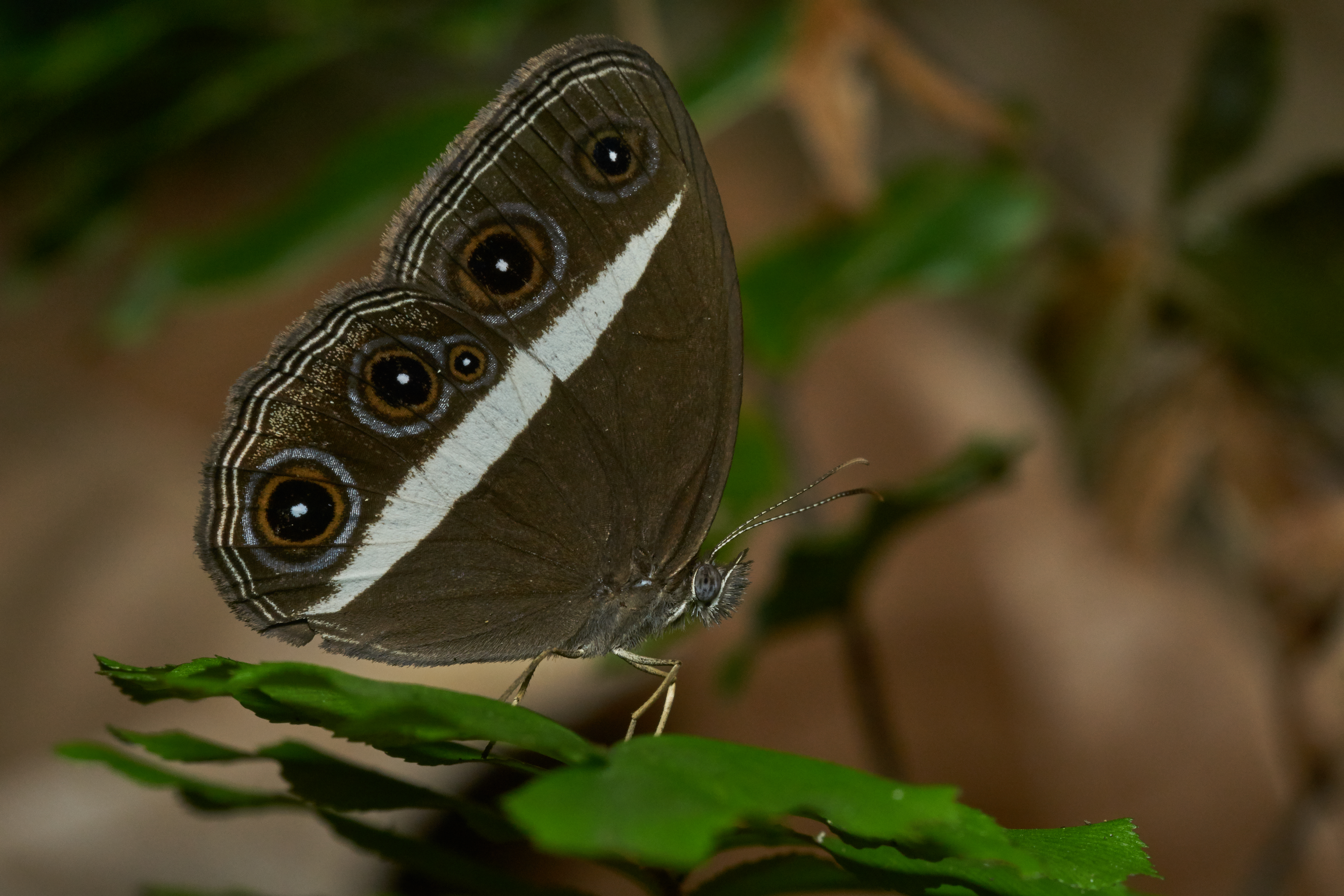 Orsotriaena medus is a butterfly found in South Asia, Southeast Asia, and Australia. The butterfly has historically been called the "Nigger", but it has been renamed in Australian fauna works to the socially acceptable name of Smooth-eyed Bushbrown. Orsotriaena medus is divided into several subspecies. This is Orsotriaena medus mandata (Moore, 1857) found in Sri Lanka and South India.